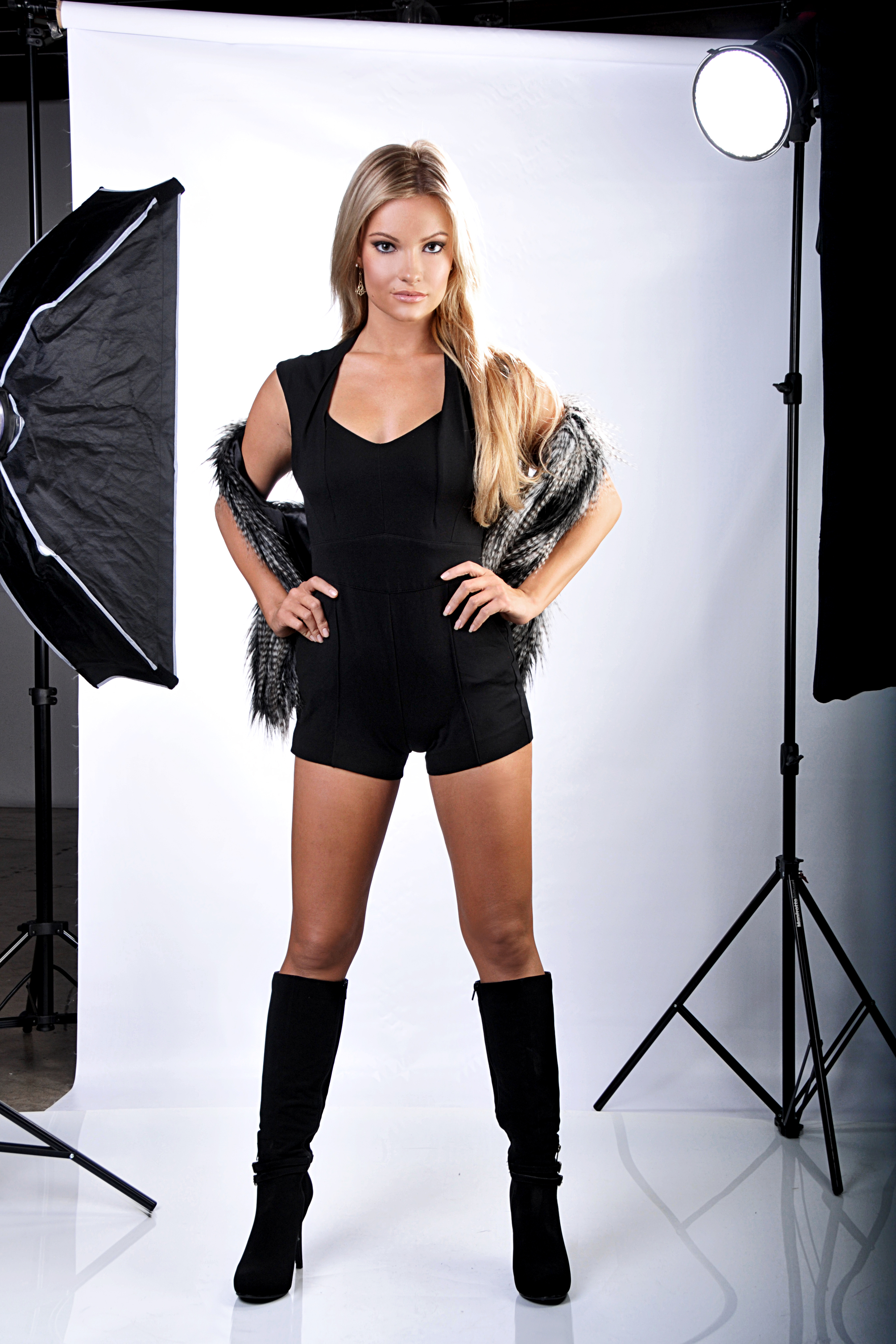 Model Posing on a Typical Studio Shooting Set, Culver City, California